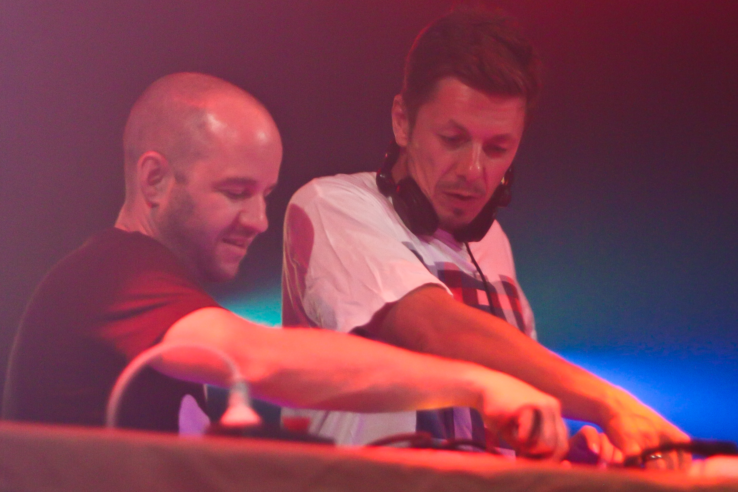 Turntablerocker at republic Salzburg